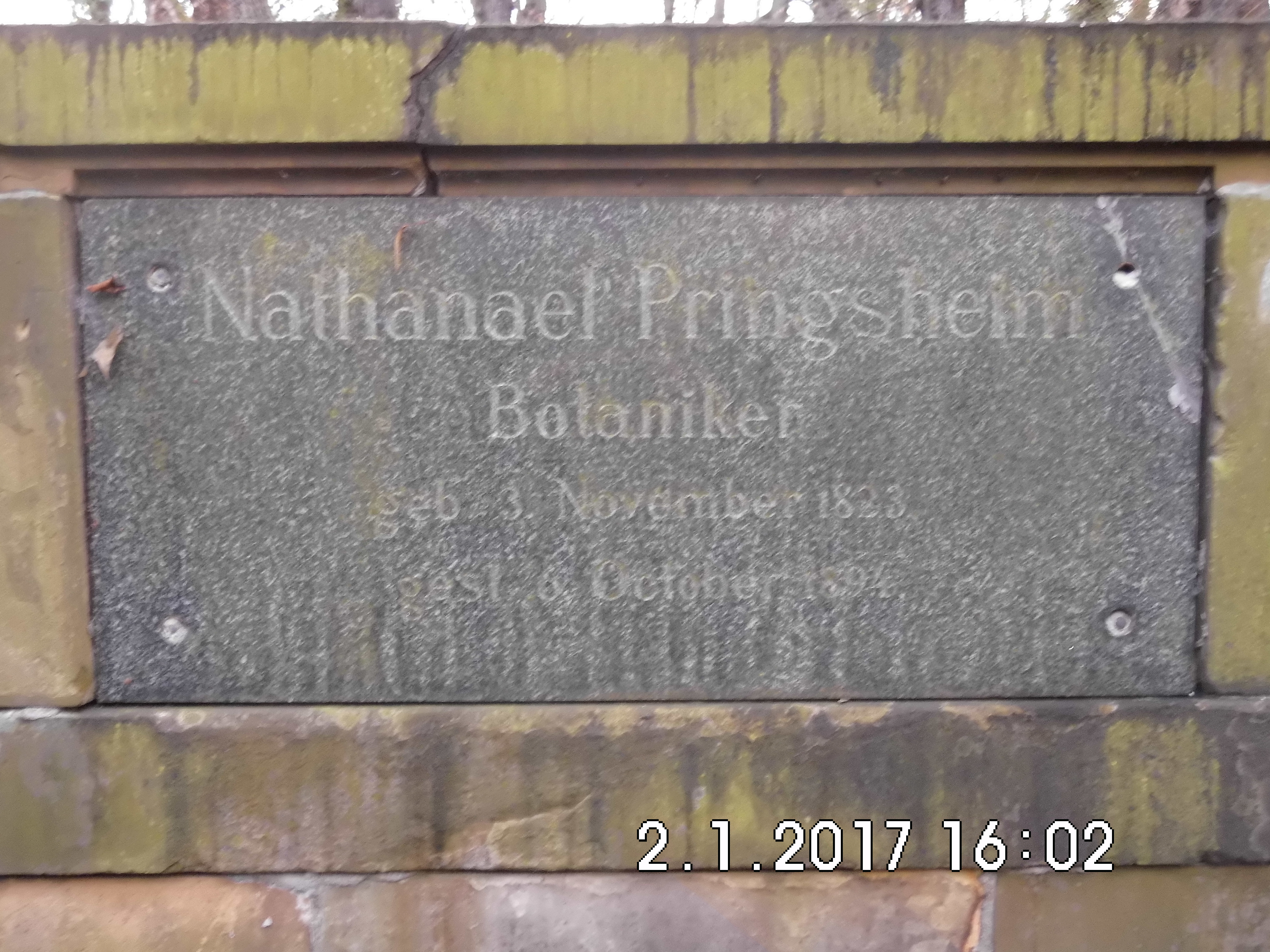 Matzevah of Nathanael Pringsheim on the Schönhauser Allee Cemetery, Berlin